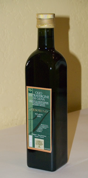 BAIA October 2006 Wine Tasting California USA